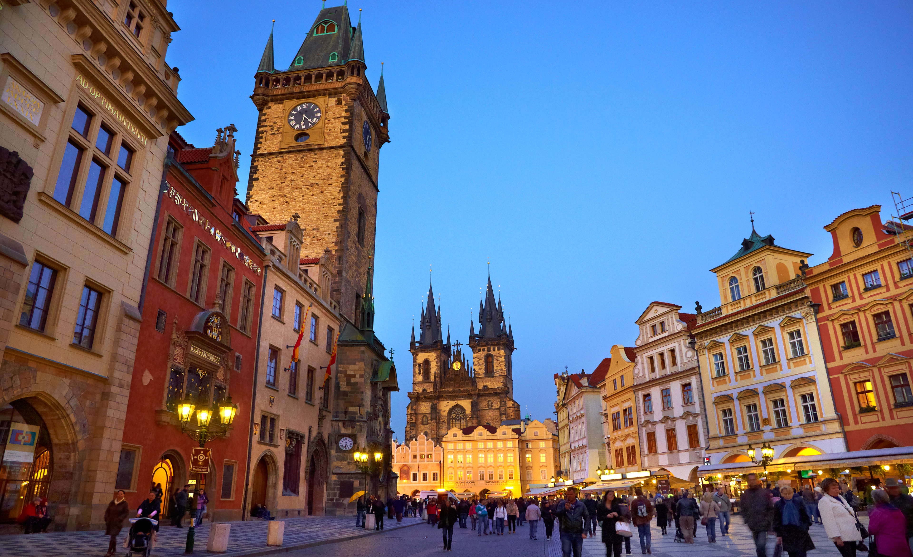 the Stare Mesto square taken during twilight